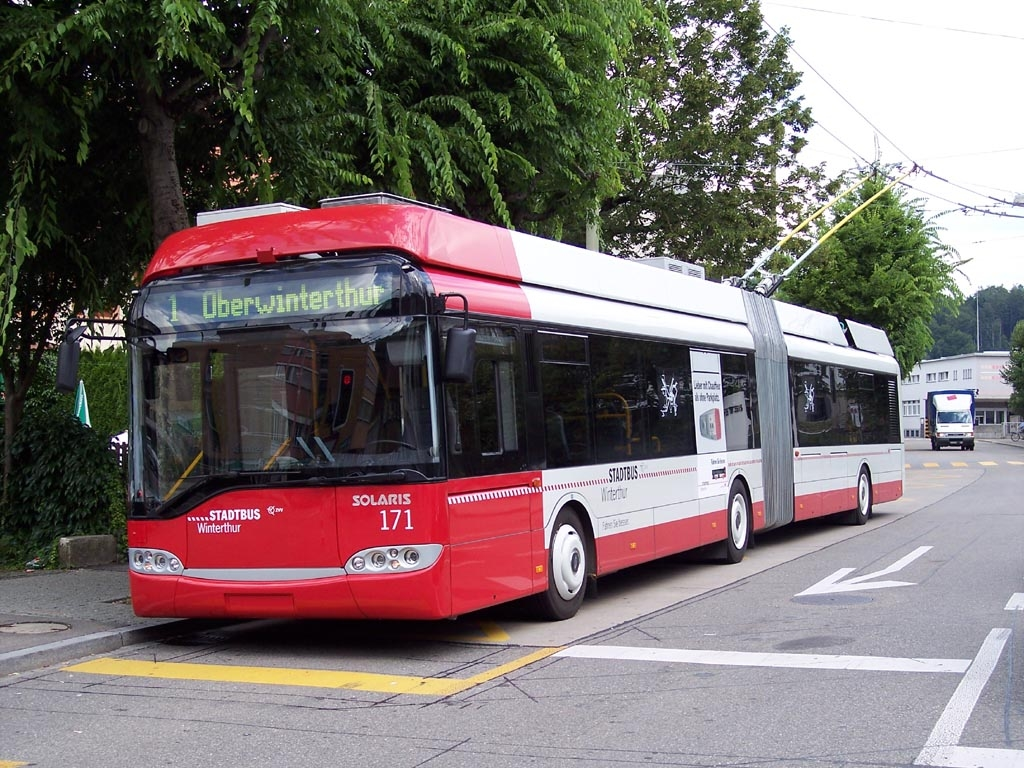 The first Solaris Trollino 18AC articulated trolleybus for the Winterthur system was delivered in 2005 (built 2004). Number 171 was pictured at the Töss terminus of route 1 shortly after entering service.